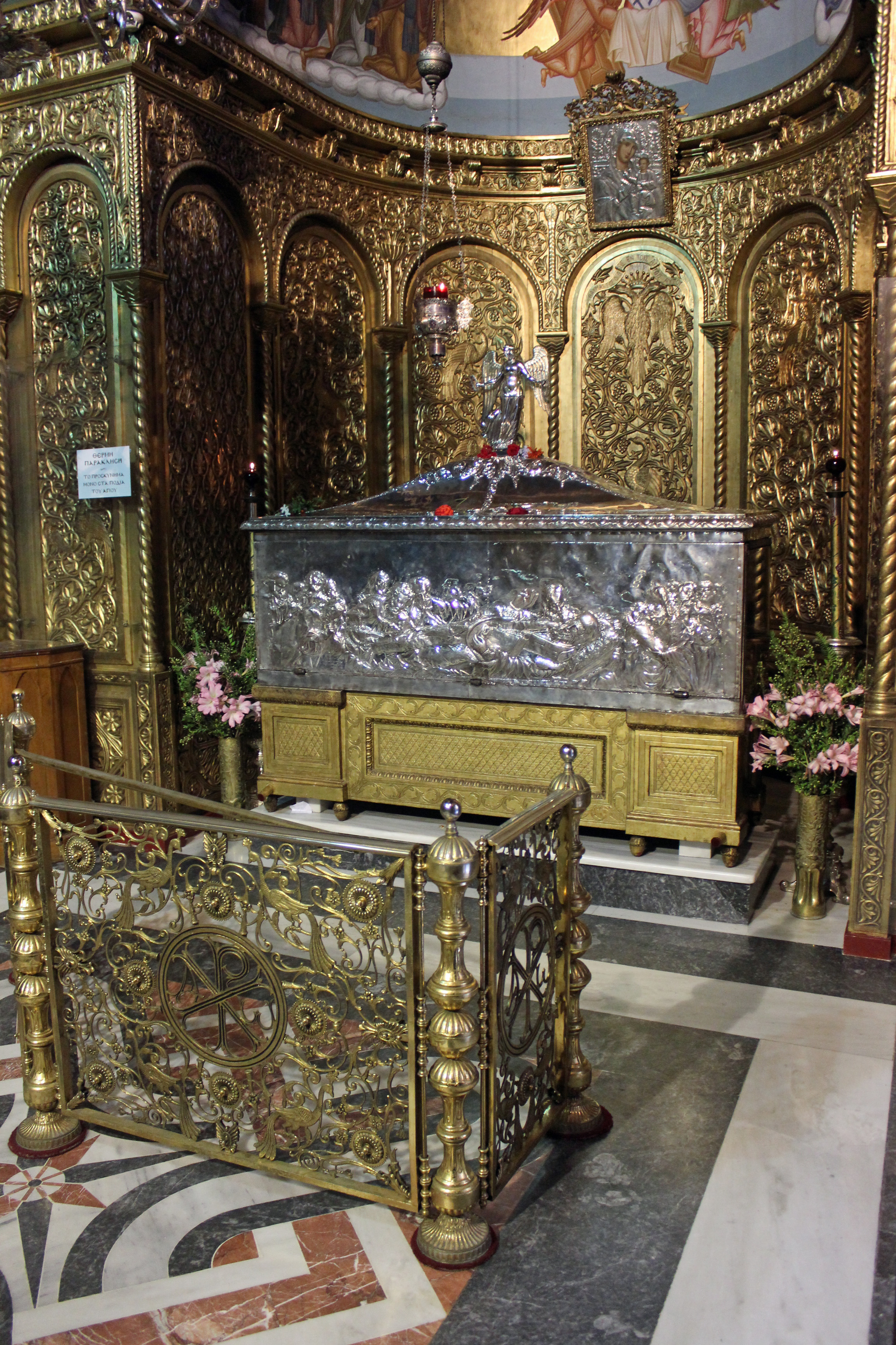 Sarcophagus of Saint Dionysios, Dionysios Cathedral in Zakynthos-City, Zakynthos, Greek Ionian Islands